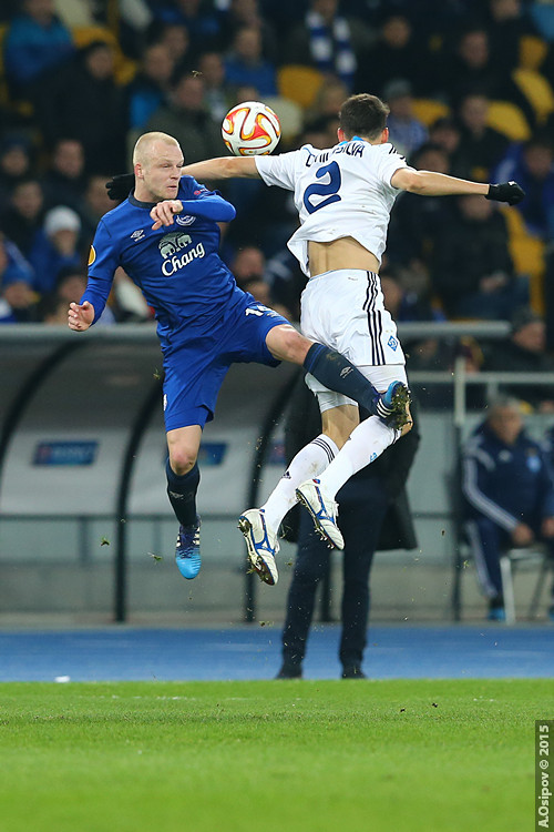 UEFA Europa League 2014-15 1/8 Final NSK Olimpiyskyi - Kyiv 19/03/2015 - 19:00CET (20:00 local time) Round of 16, Second leg Dynamo Kyiv - Everton - 5:2 Goals: Yarmolenko 21 Lukaku 29 Teodorczyk 35 Miguel Veloso 37 Gusev 56 Antunes 76 Jagielka 82 Aggregate: 6-4